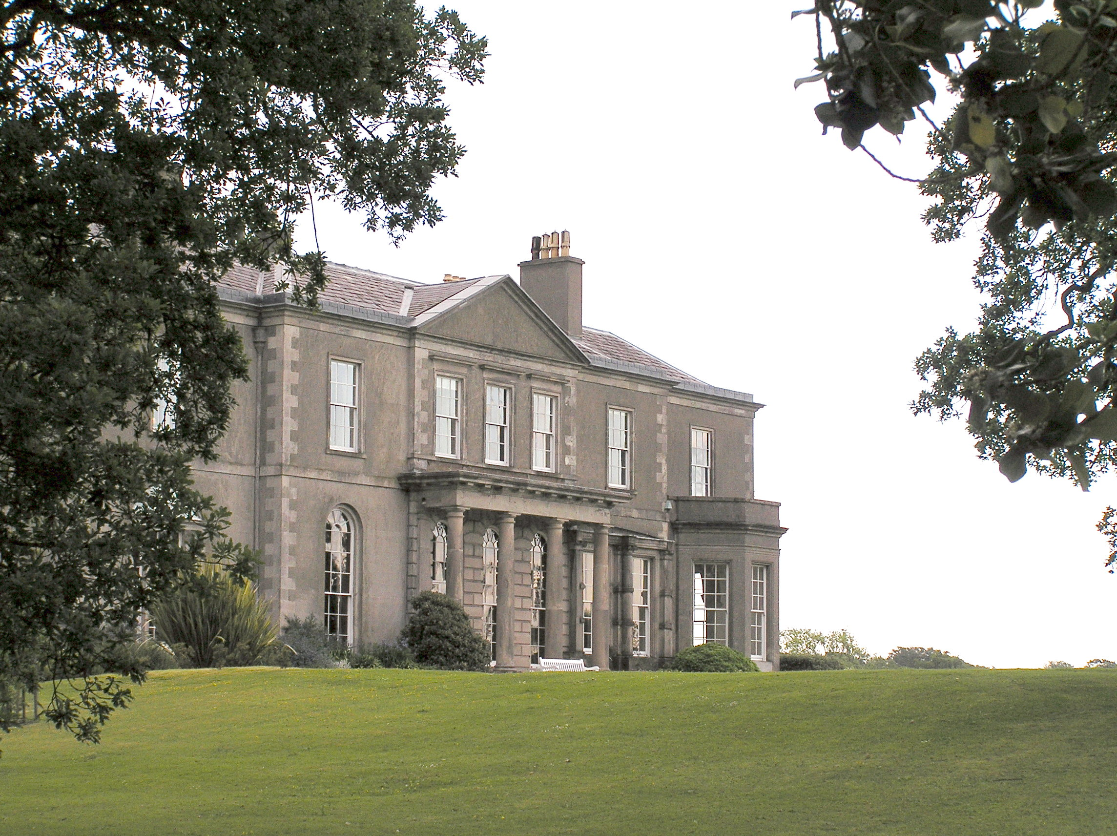 Clandeboye House at dusk